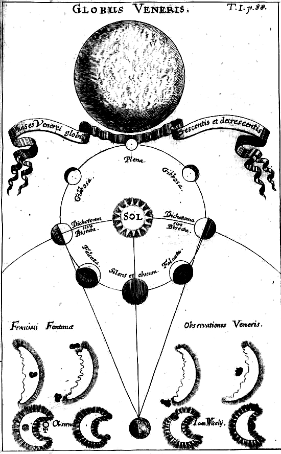 Planet Venus in its revolution around the Sun, showing its phases. Also shown, in the lower part of the figure, is Venus’ satellite as found by Fontana and Wiesel.